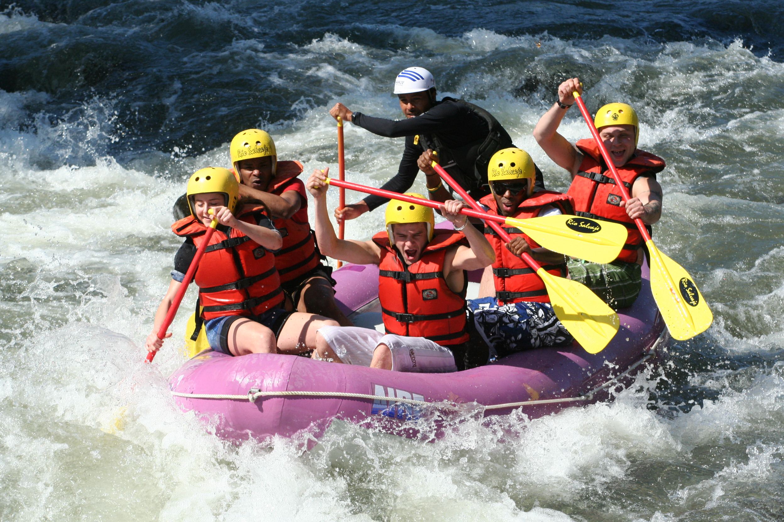 Rio Salvaje, Rafting in Jalcomulco, Veracruz, Mexico.